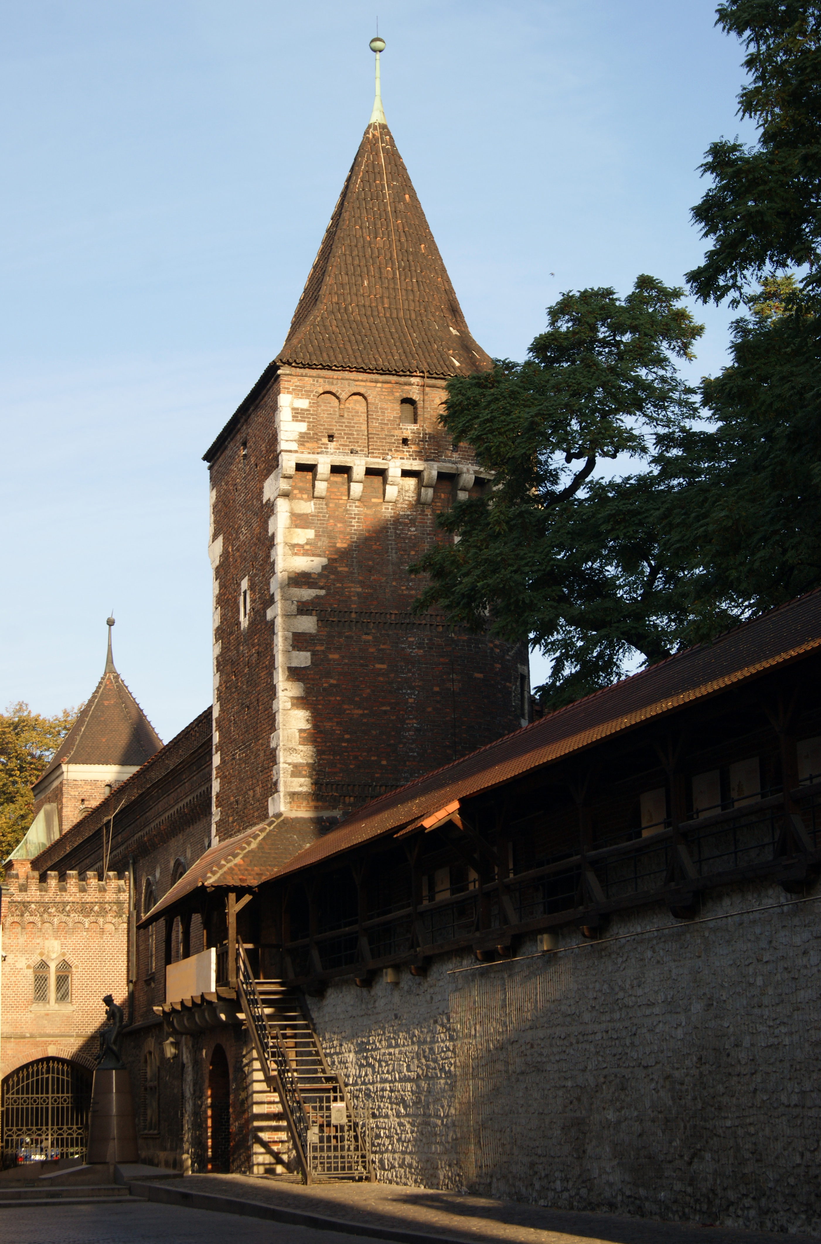 City Walls of Krakow, Carpenters' Tower, Old Town, Krakow, Poland